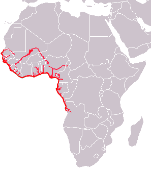 African Manatee (Trichechus senegalensis) range, along with national borders